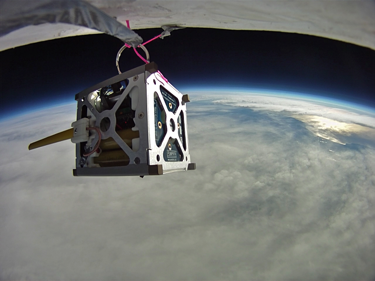 Original description "PhoneSat 1.0 during high-altitude balloon test."